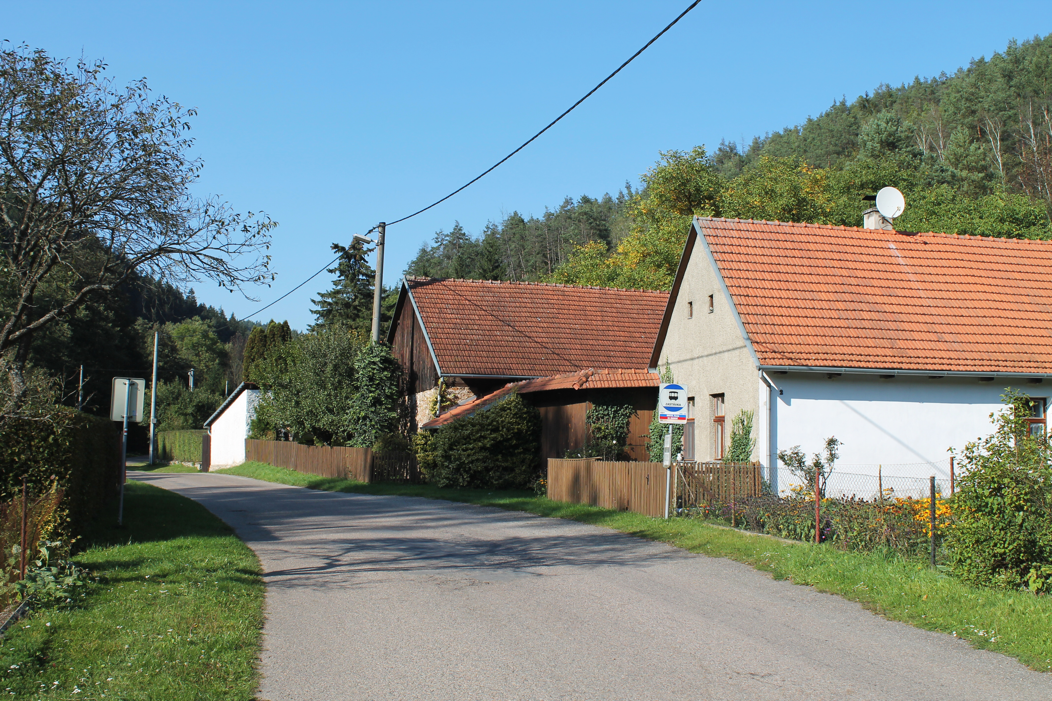 Boudy, Skryje, Brno-Country District, Czech Republic